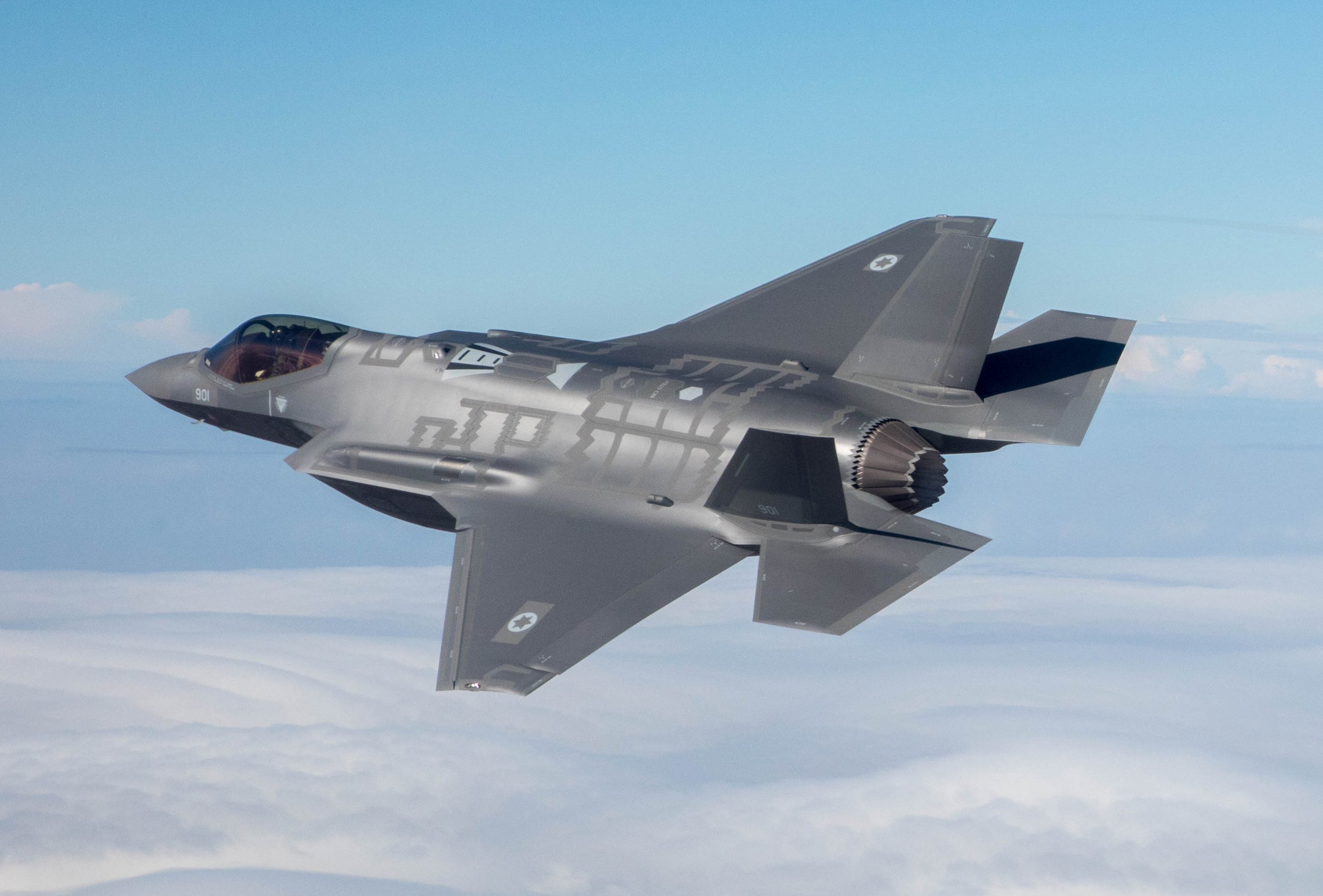 The "Adir" jets first flight in Israel. Pictured: "Adir" jet. Photo by: Maj. Ofer